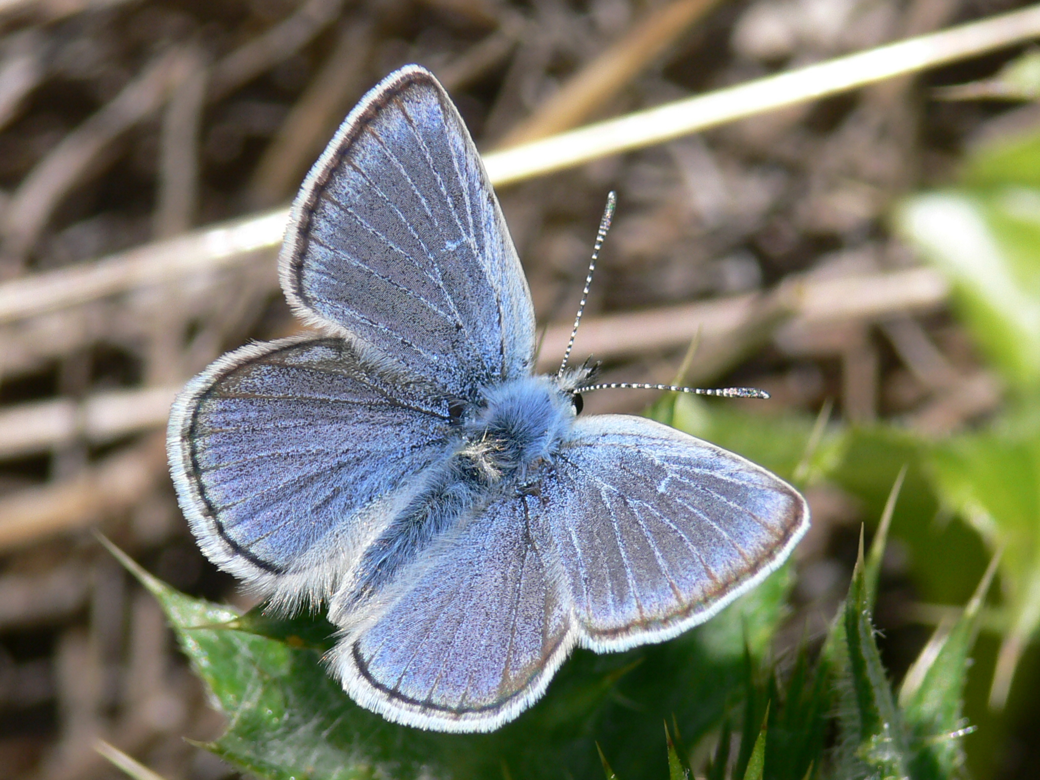 Mission blue (Icaricia icarioides missionensis). This photo of a male Mission Blue butterfly was taken on the Southeast ridge of San Bruno Mountain, California.